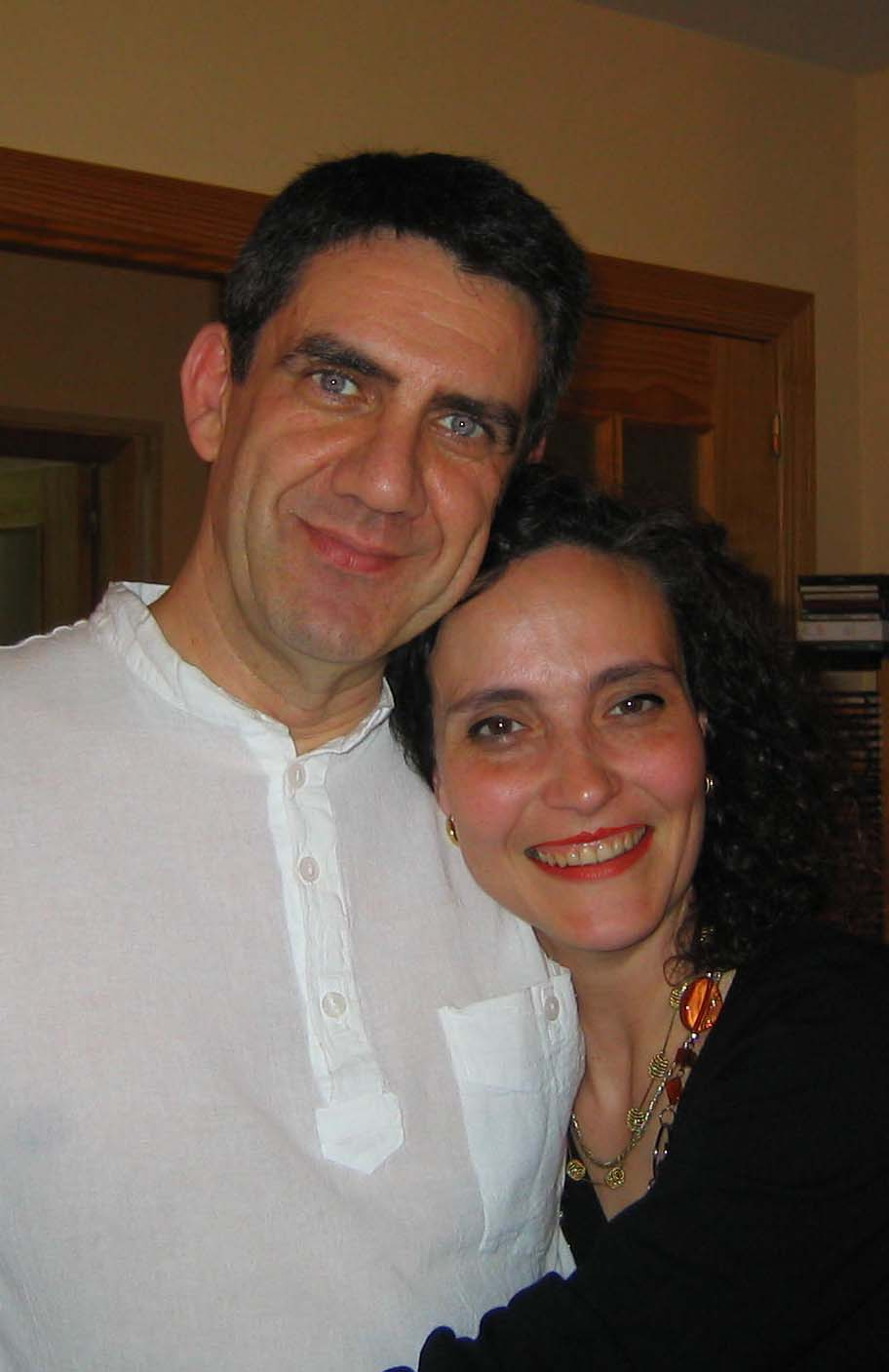 Jose Luis Narom and Inma Gonzalez